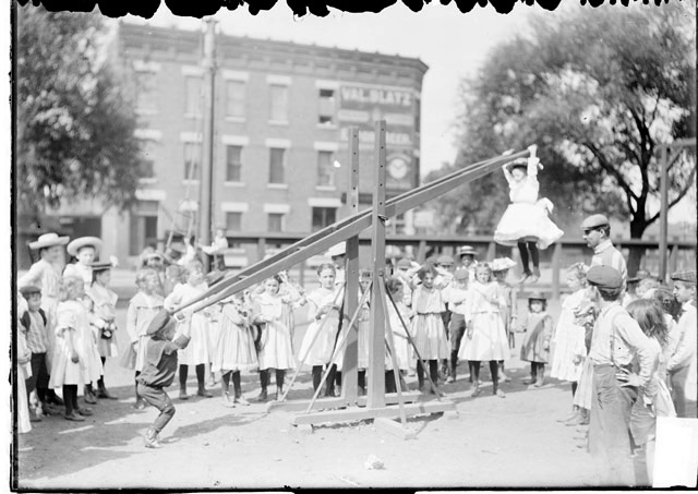 View of two children playing on a seesaw at the Webster School playground at Wentworth Avenue and 33rd Street in the Douglas community area in Chicago, Illinois. A girl is hanging by her hands underneath the raised half of the seesaw, and a boy is holding down the lowered half of the seesaw.